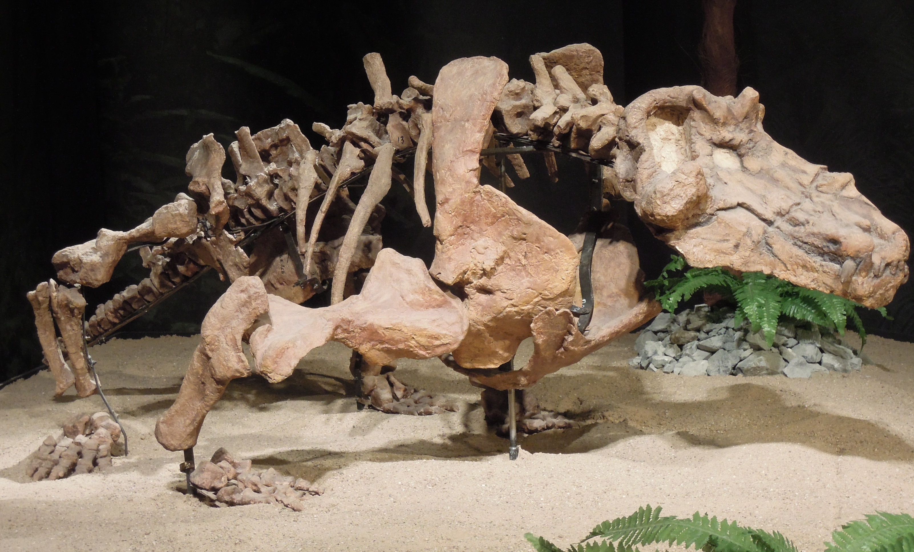 Estemmenosuchus uralensis, Dinosaurium exhibition, Prague, Czech Republic